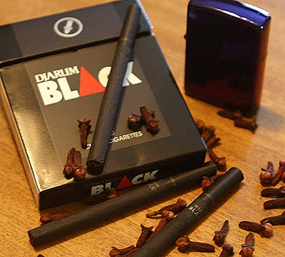 Djarum blacks, pack and cigarettes. A kretek cigarette.